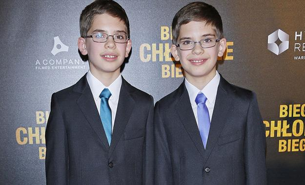 The twins Kamil Tkacz and Andrzej Tkacz in the premier